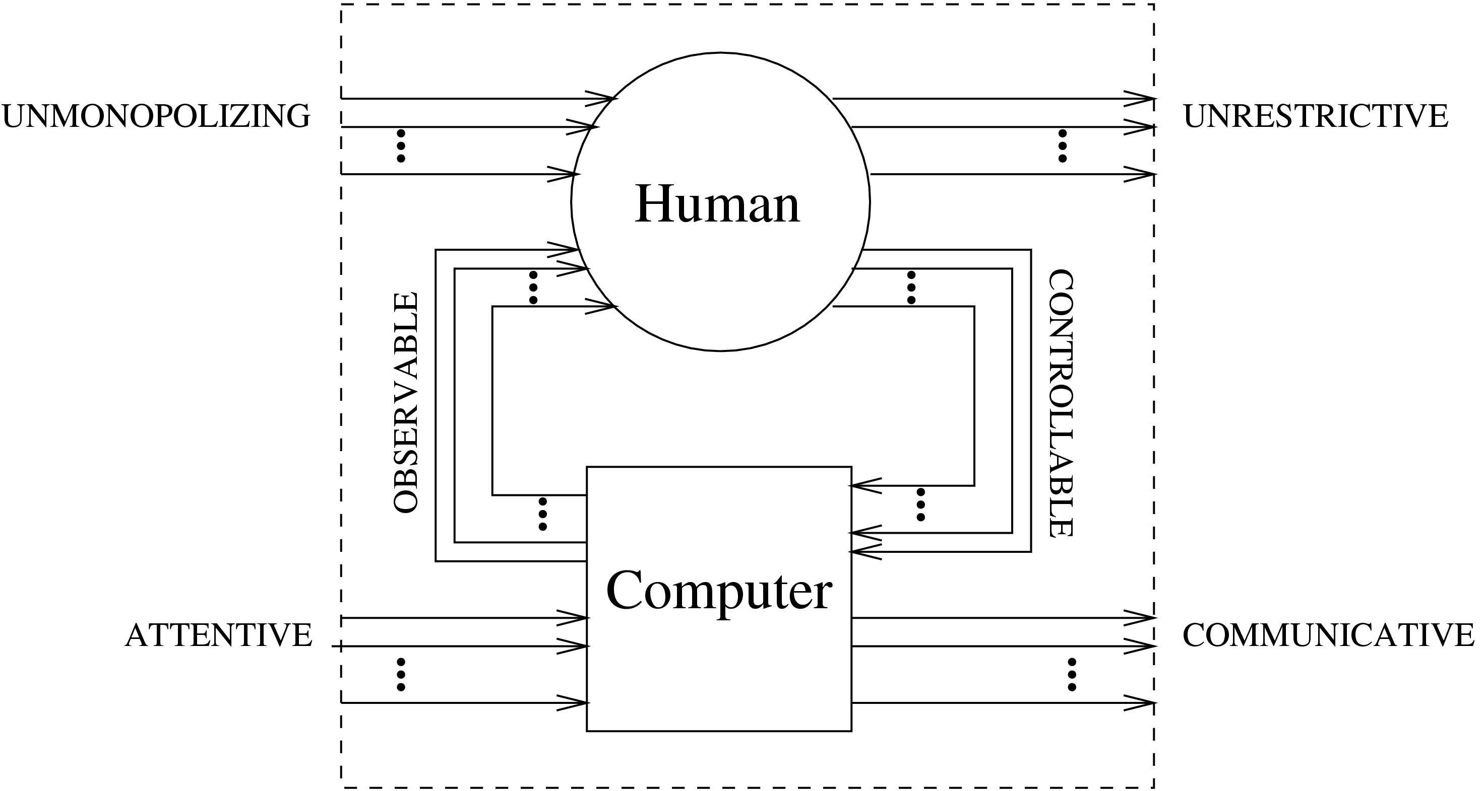 Humanistic Intelligence signal flowpath diagram